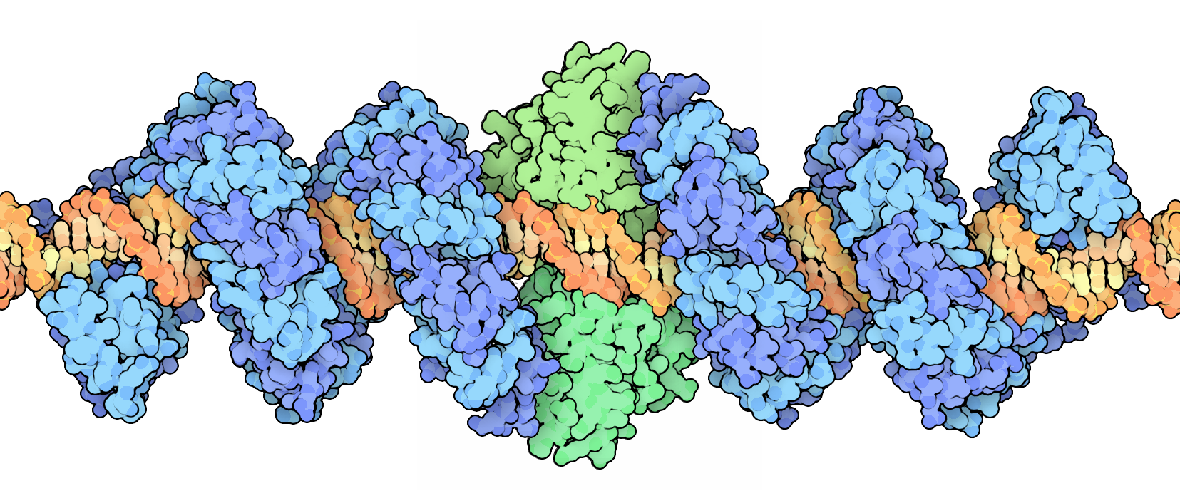 Space-filling drawing of an engineered TAL effector/nuclease bound to double-helical DNA. TALE proteins contain a series of alpha-helical hairpin domains, each of which binds an individual DNA base, so that the protein recognizes a long, very specific DNA sequence. This engineered construct attaches the specific FOK1 nuclease to one end of the TALE protein, and when two copies bind as a dimer the nuclease cleaves both strands of the DNA. Drawn by David Goodsell from PDB files 1FOK (nuclease/DNA) and 3UGM (TALE/DNA).